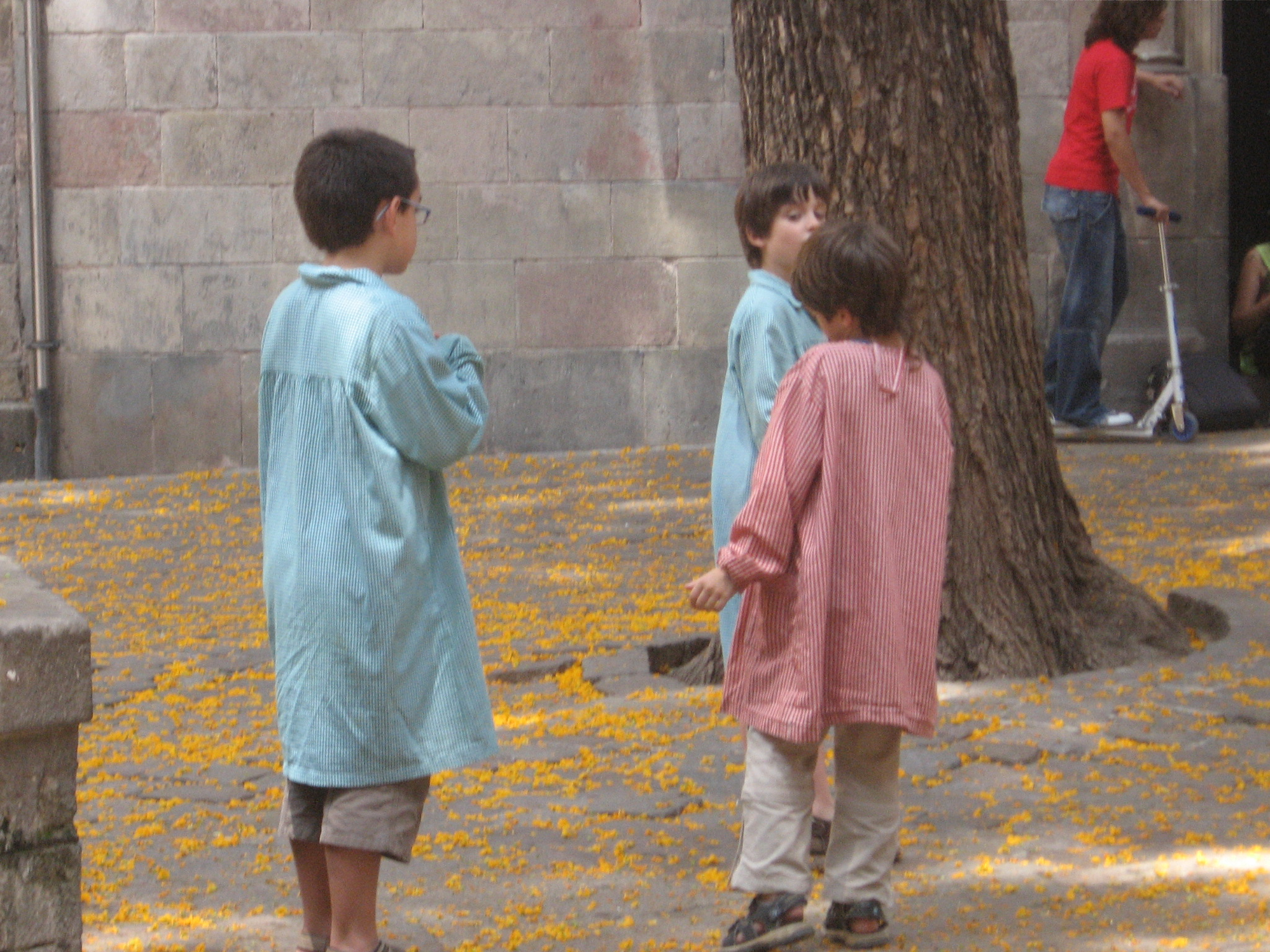 Barcelona - school children with school uniforms.